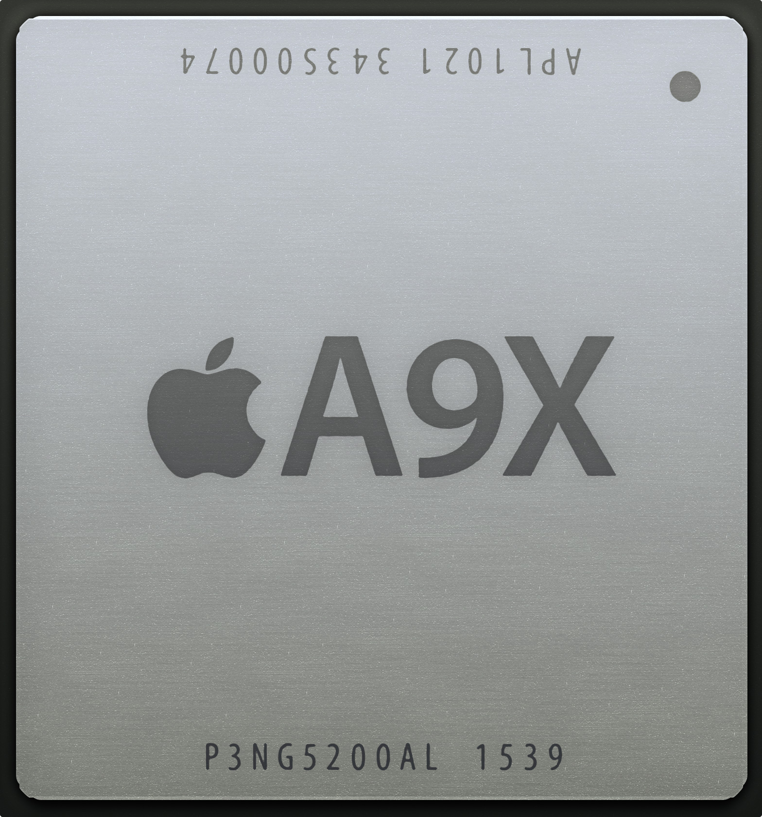 Apple A9X system-on-a-chip. This is the one in the iPad Pro.